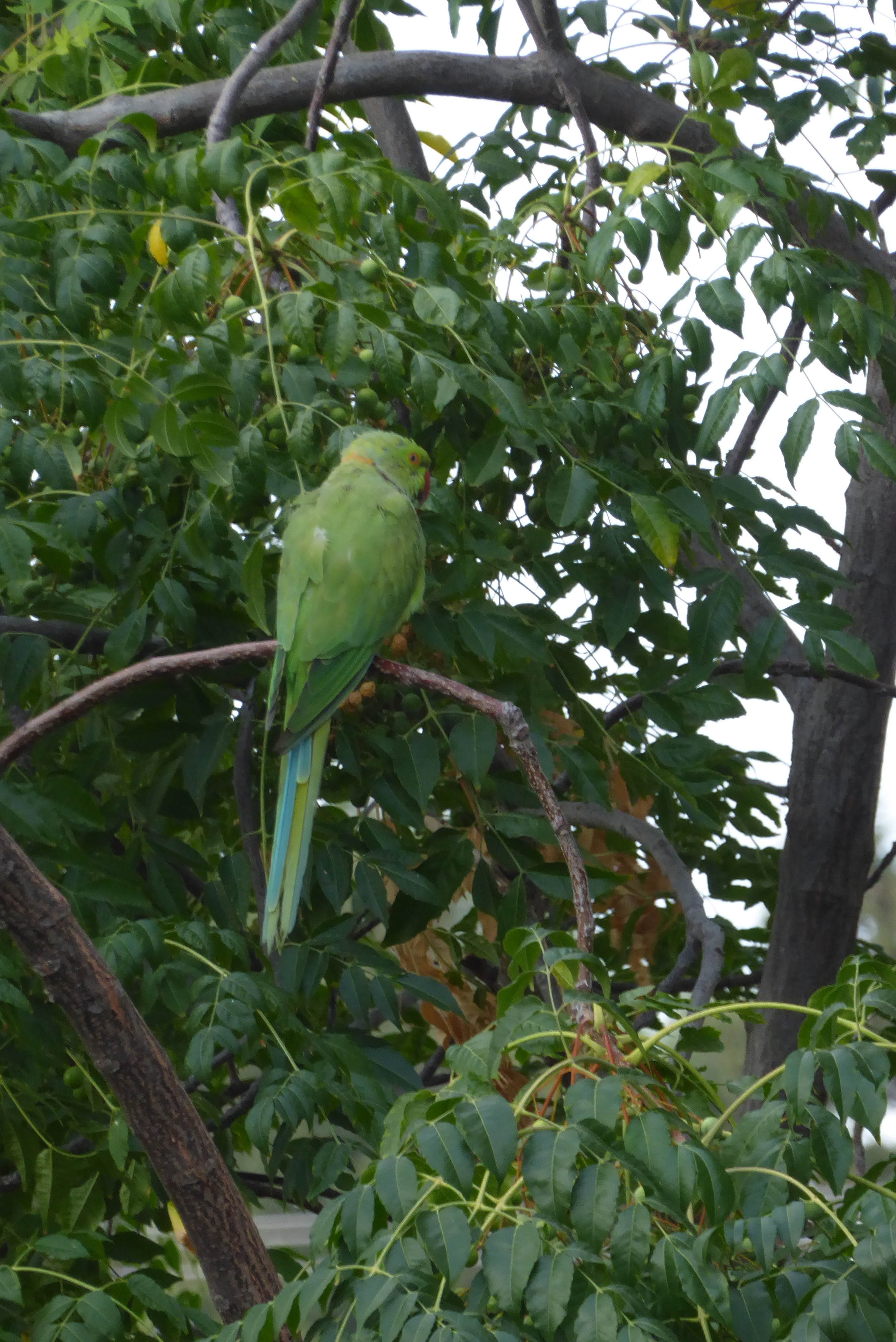 Green Parrot in Ramat Gan